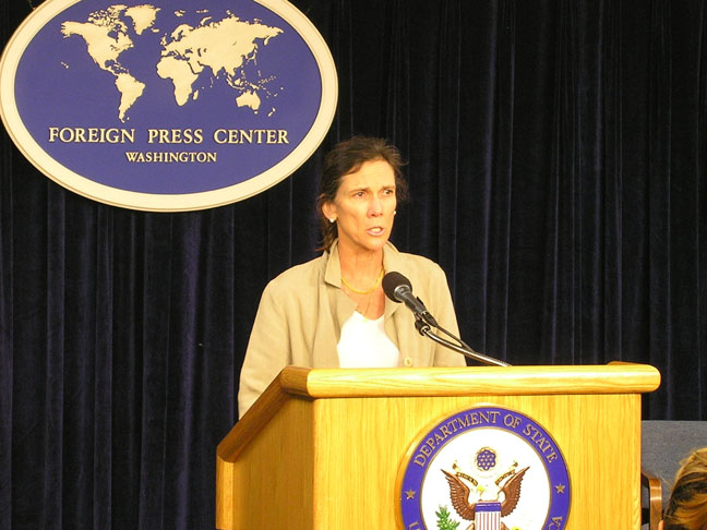 "Janet Brown, Executive Director, Commission on Presidential Debates, at the Washington Foreign Press Center Briefing on "Overview of the Presidential Debates.""